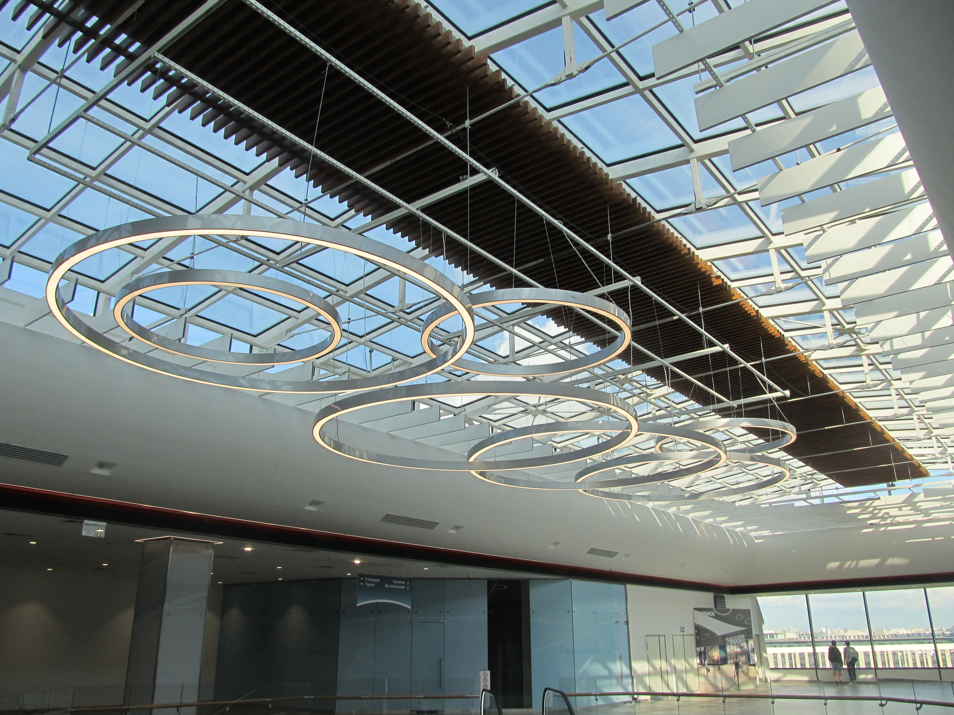 Long gallery of Skolkovo Innovation Centre railway platform (to Skolkovo Innovation Centre)